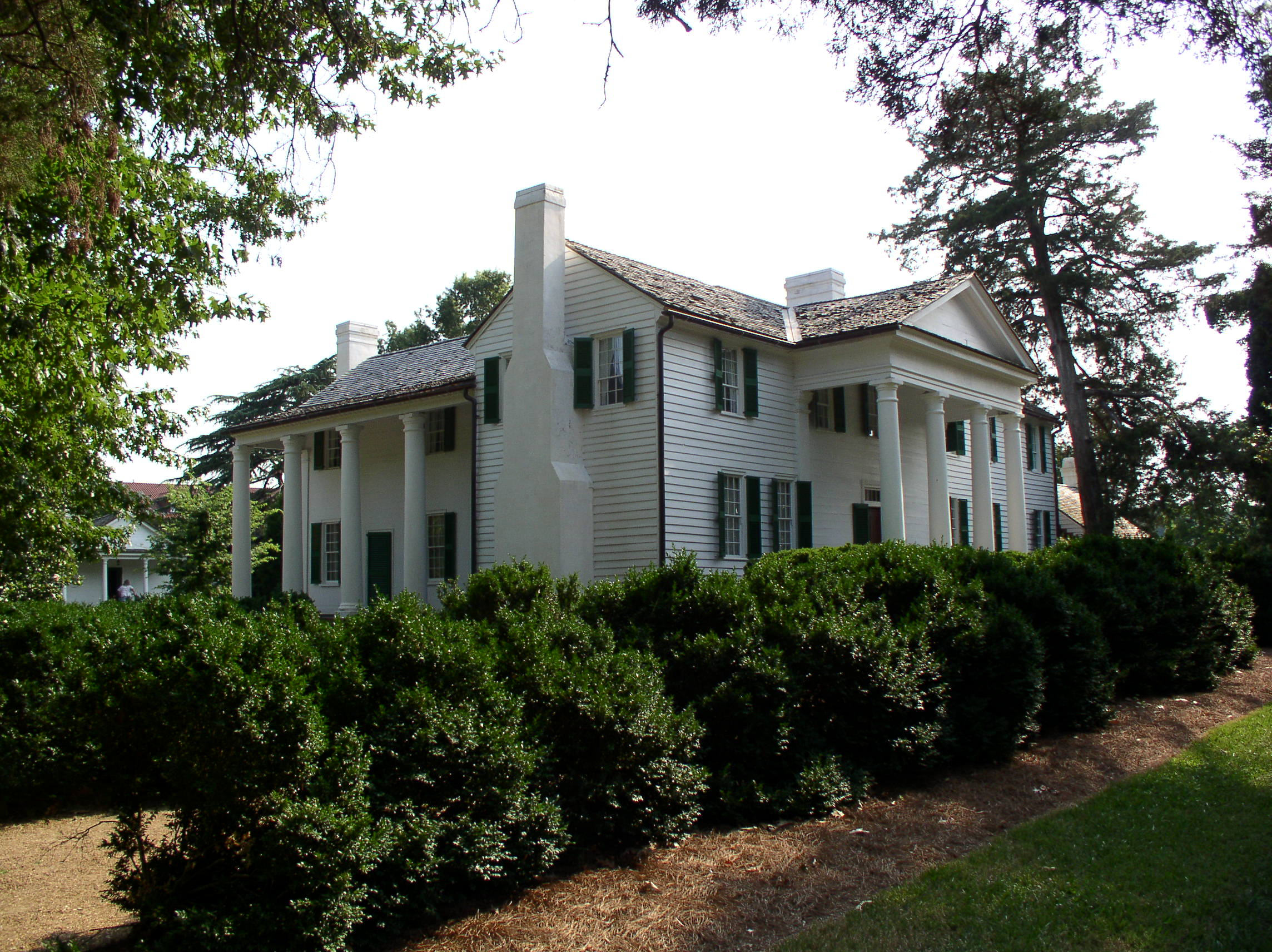 Image of Fort Hill, home of John C. Calhoun and later Thomas Green Clemson.